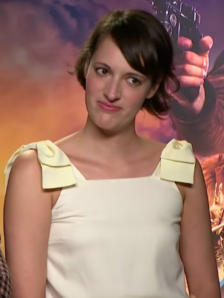 Phoebe Waller-Bridge during an interview for Solo: A Star Wars Story on MTV International's YouTube channel in May 2018.